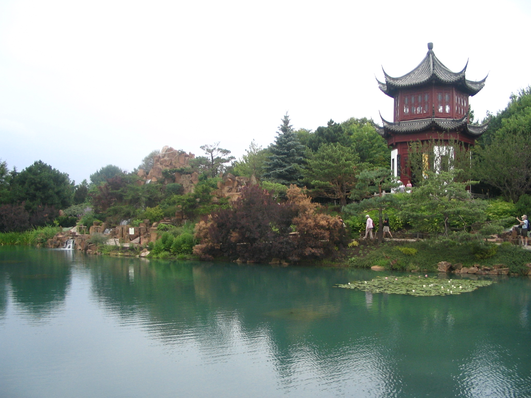 One of the multiple Chinese-style buildings in the Chinese Garden at the Jardin botanique de Montréal.